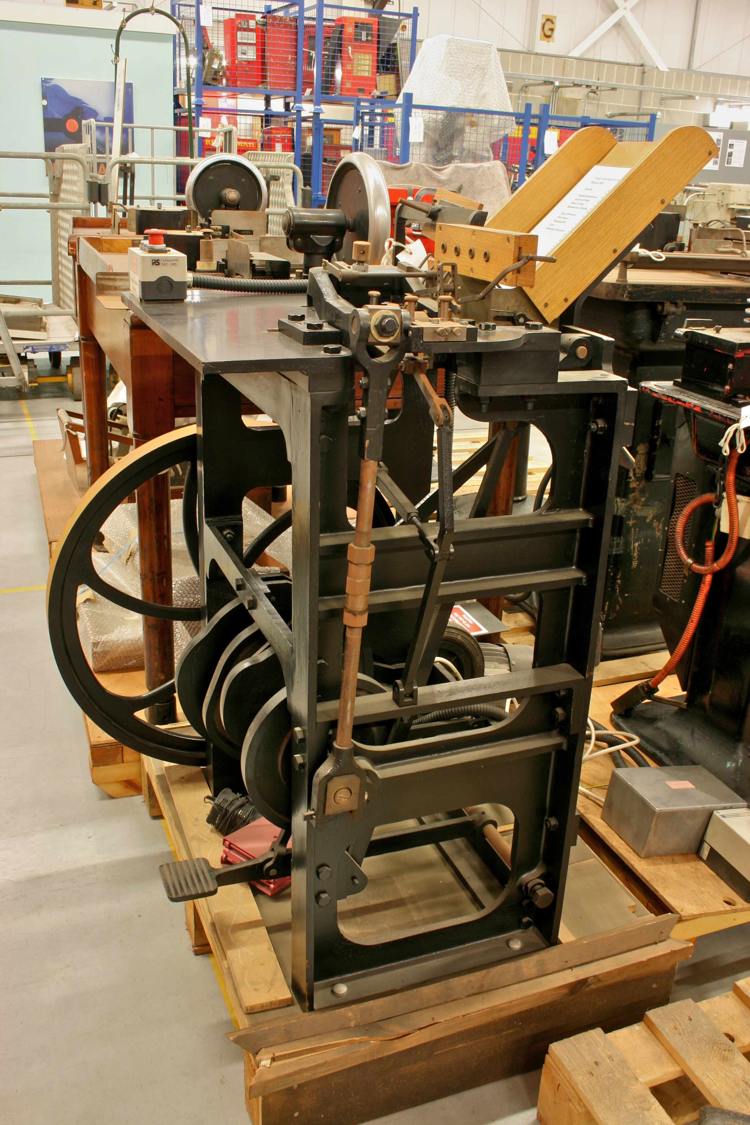 Stamp cancelling machine. Invented by Pearson Hill. Full-sized replica of original (circa 1858), constructed in 1991 to celebrate the Silver Jubilee of the former National Postal Museum. Collection ID OB1996.396.